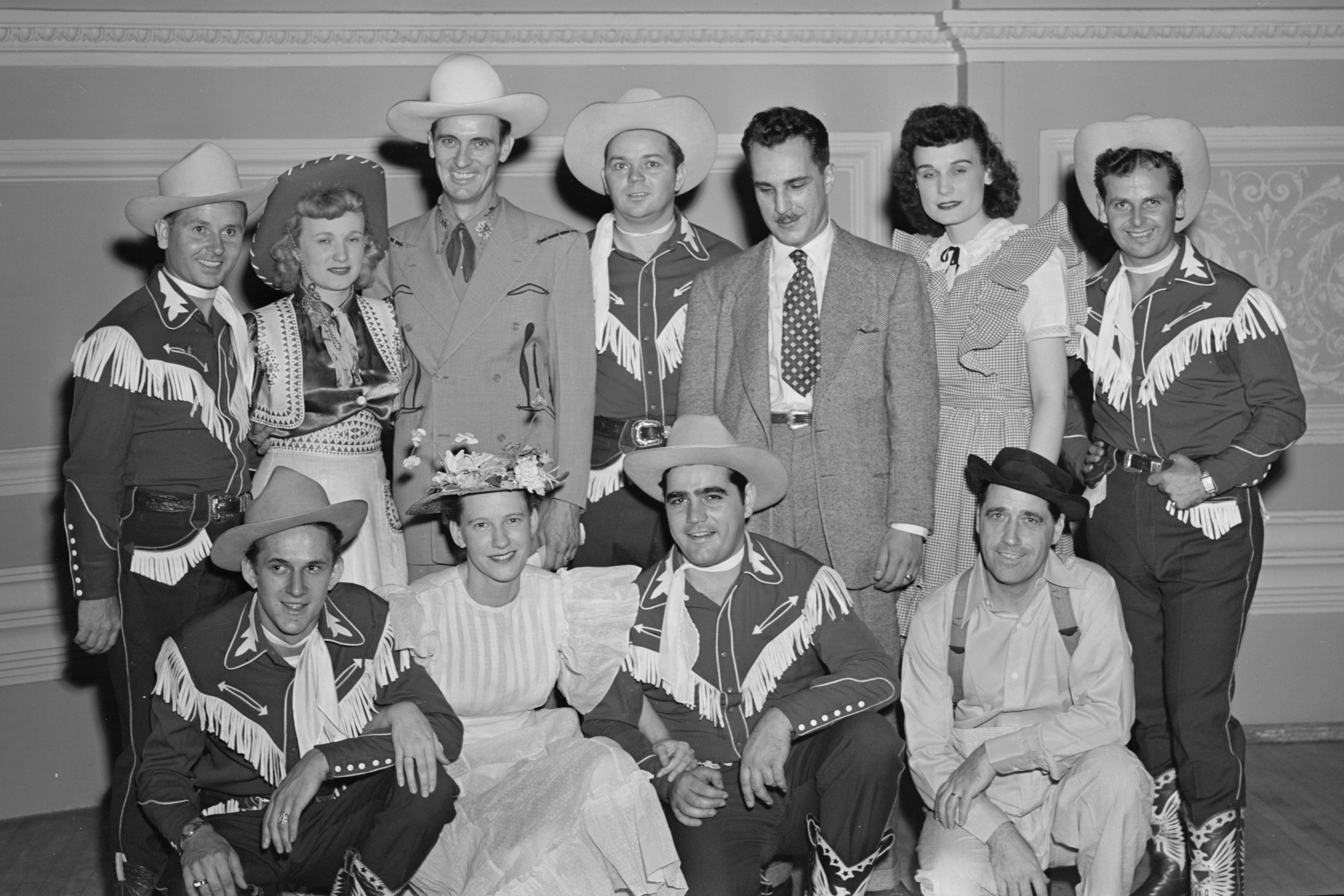 Portrait of Shorty Warren, Rosalie Allen, Ernest Tubb, Cy Sweat, Dave Miller, Radio Dot, Smokey Warren, Dick Richards, Minnie Pearl, Bob McCoy, and Smokey Swan, Carnegie Hall, New York, N.Y., Sept. 18-19, 1947